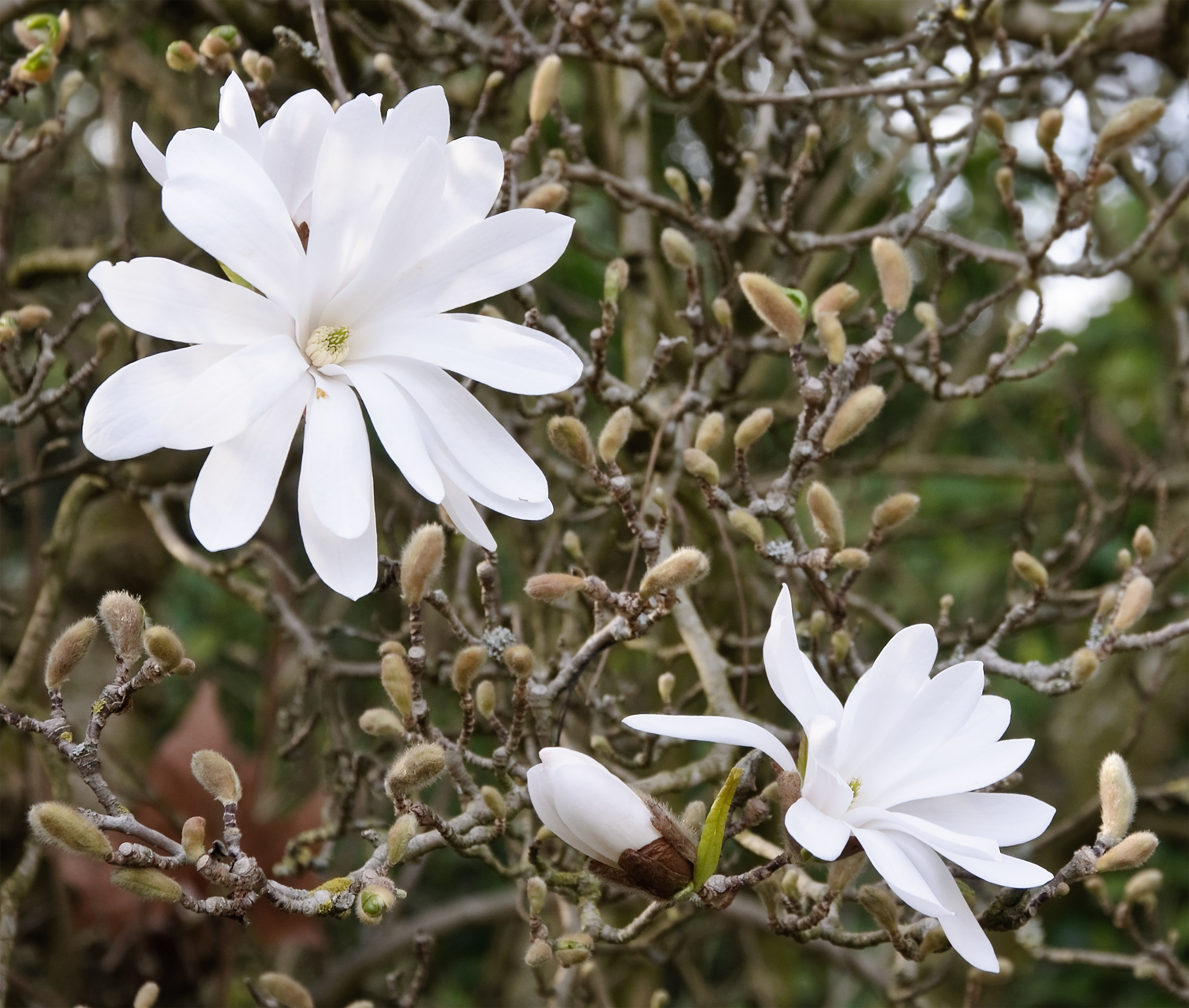 Flowers and buds of star magnolia (Magnolia stellata) in the park of Bagatelle, Paris, France.